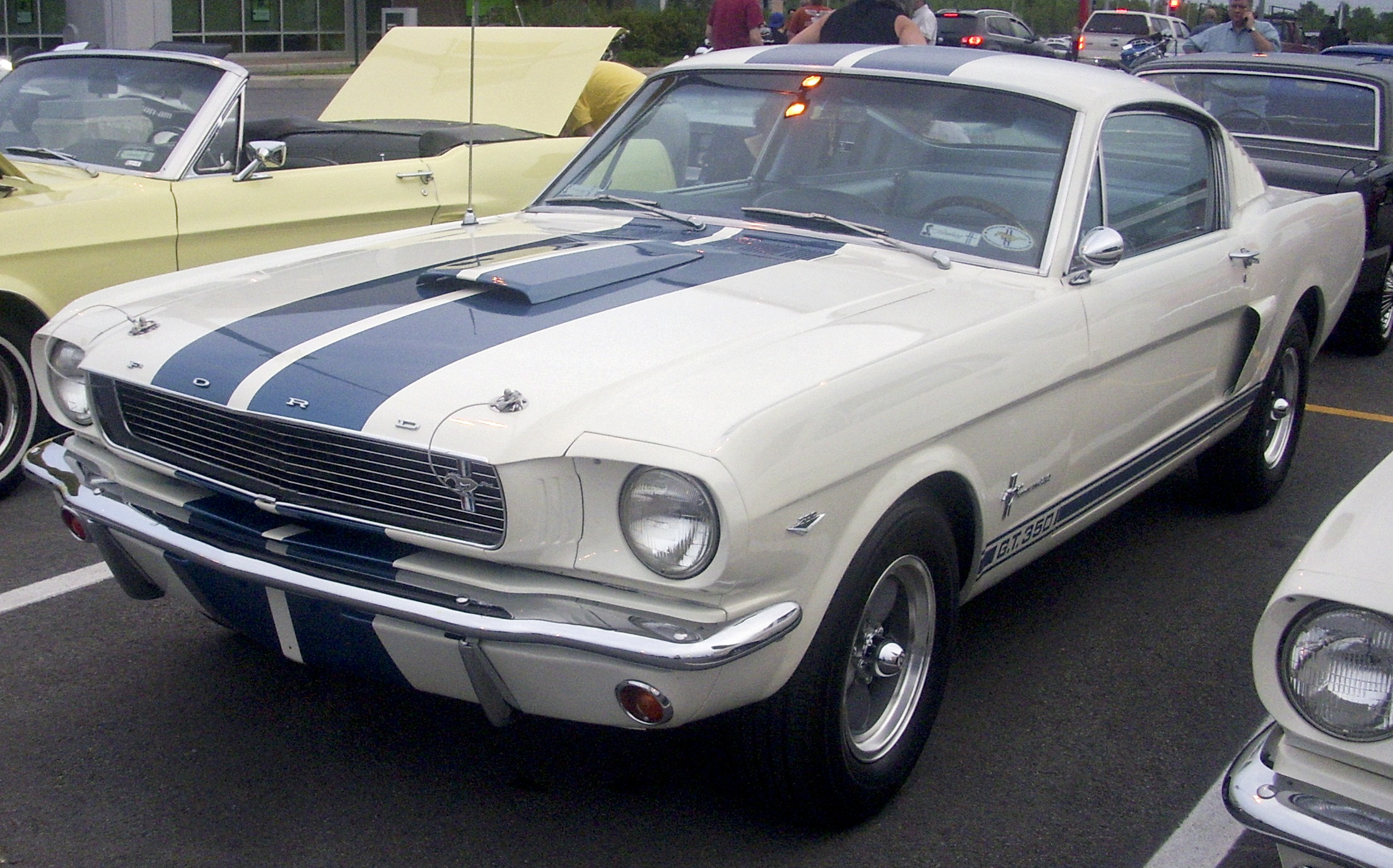 Ford Shelby Mustang GT350 photographed in Laval, Quebec, Canada at Centropolis Laval.